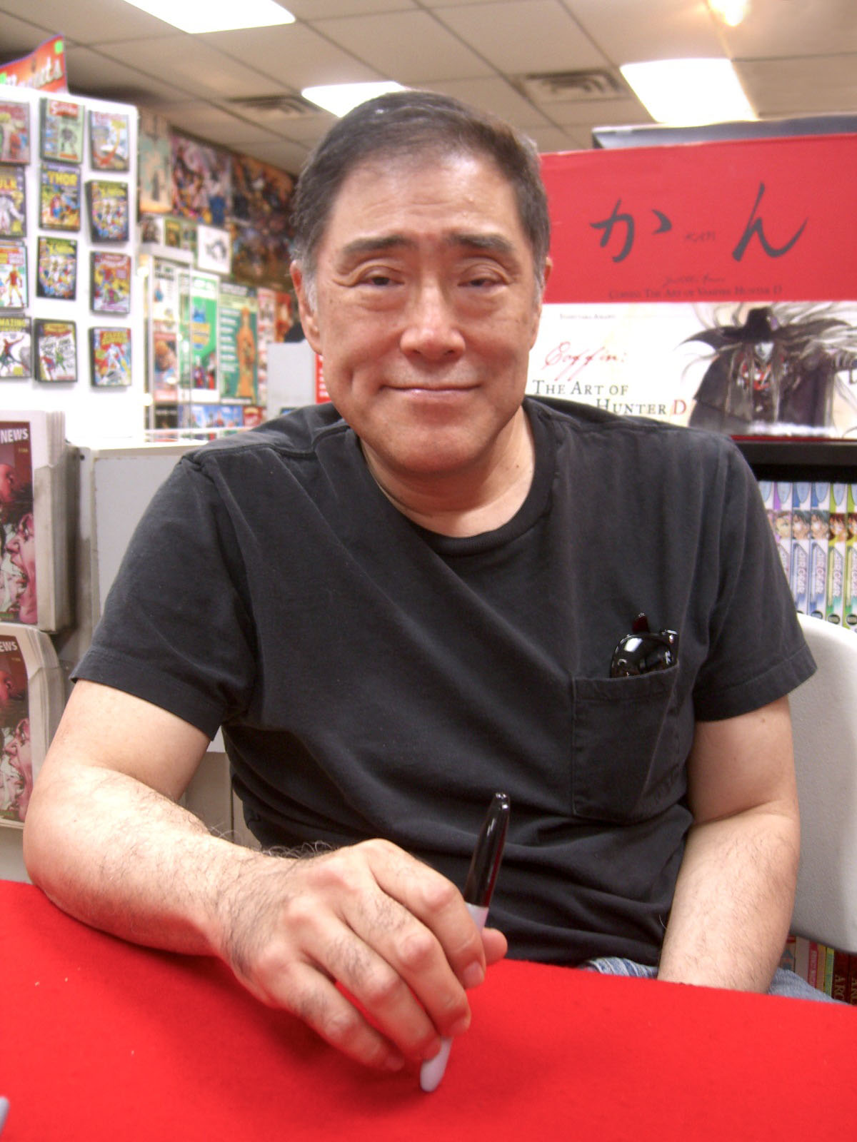 Comics creator Larry Hama at a signing of the anthology Secret Identities at Midtown Comics Times Square on May 23, 2009.Photographed by Luigi Novi. This photo is not in the public domain. It may, however, be used, modified and published for any purpose, only if an easily visible credit to the photographer is placed near the photo in each instance in which it is used. (See licensing information below.) Publication of this photo without this proper attribution constitutes copyright infringement. For more information on my photos, you can contact me here.